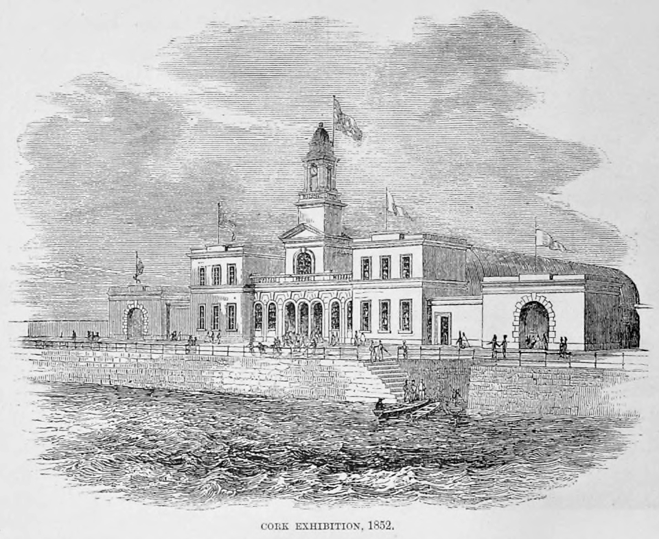 Cork Exhibition, 1852. From Frank Leslie's Illustrated Historical Register of the Centennial Exposition, 1876. Frank Leslie's Publishing House, New York, 1877. (